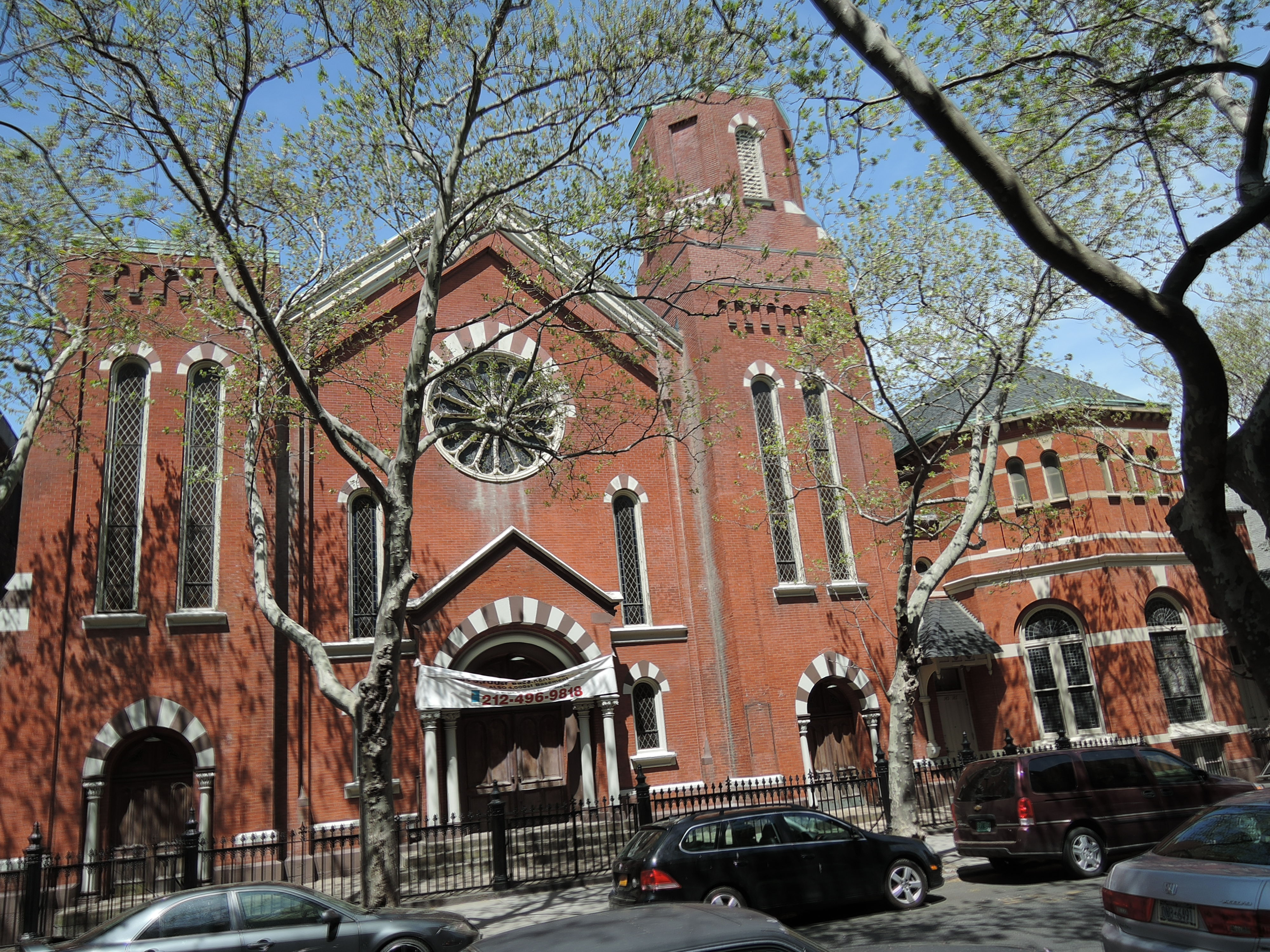 Looking north at former St Elias Greek Rite Church on a sunny day.